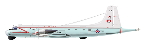 CP-107 Argus Mark 2 Profile Drawing depicting 10732 while serving with 415 (MP) Sqn, CFB Summerside, PEI, circa 1979